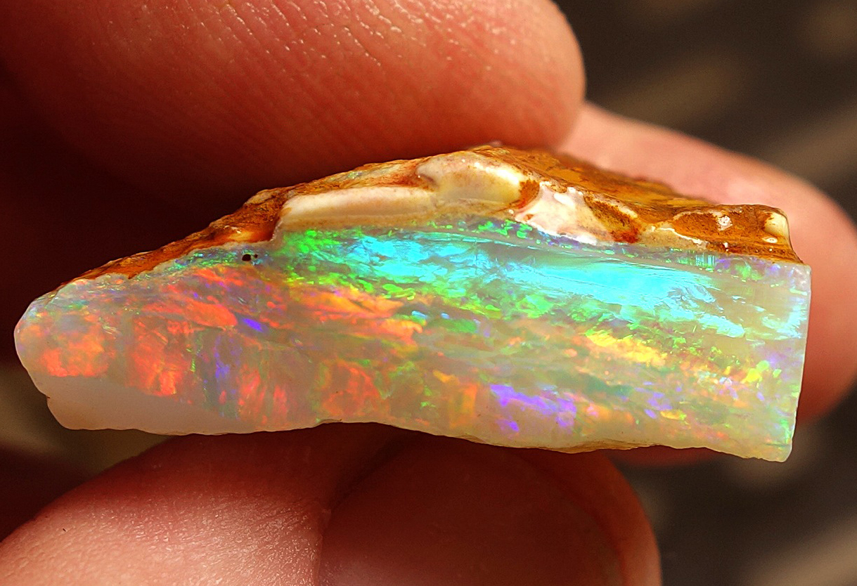 cropped version of Coober_Pedy_Opal.jpg